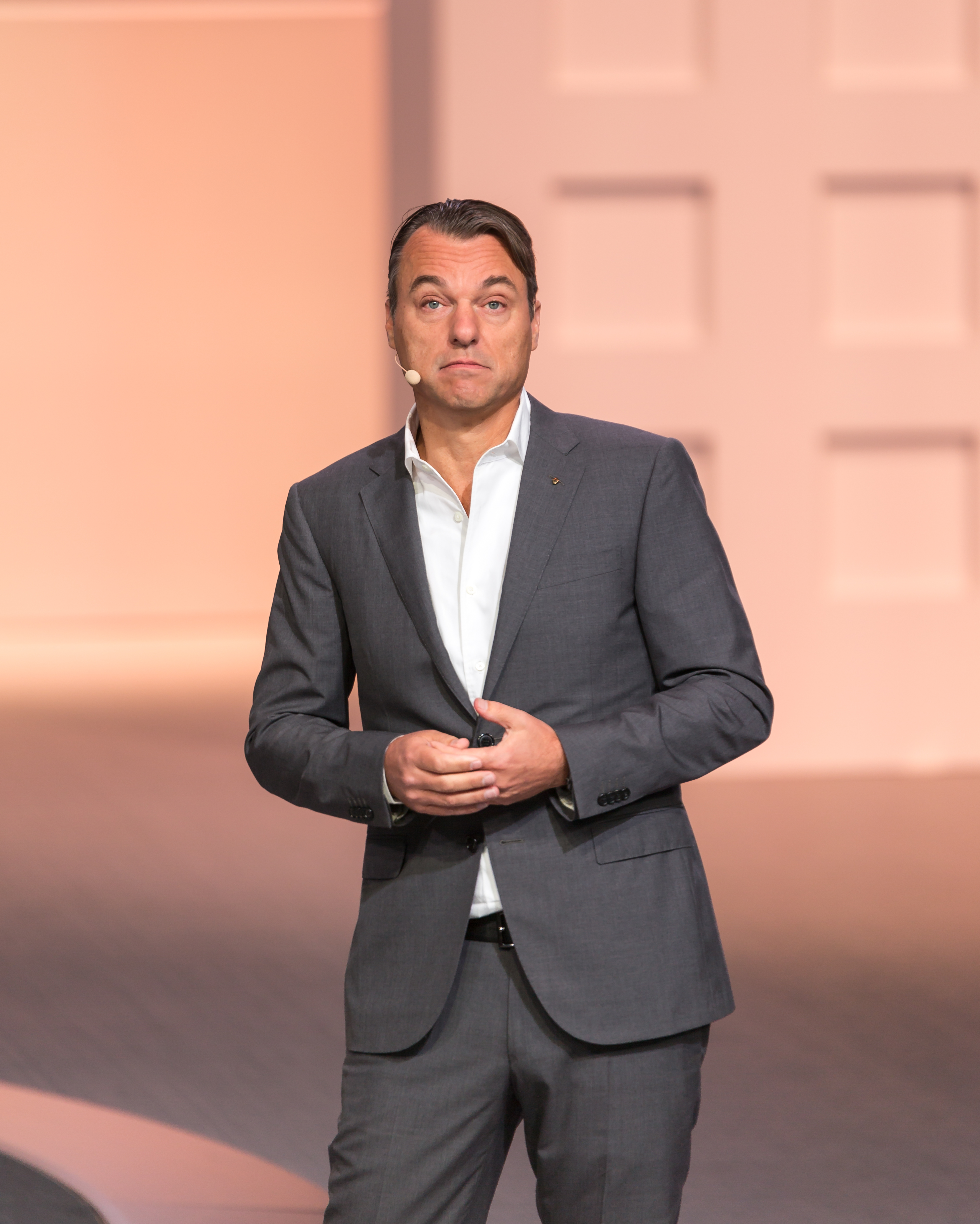 Laurens van den Acker at the Renault press conference, Mondial Paris Motor Show 2018